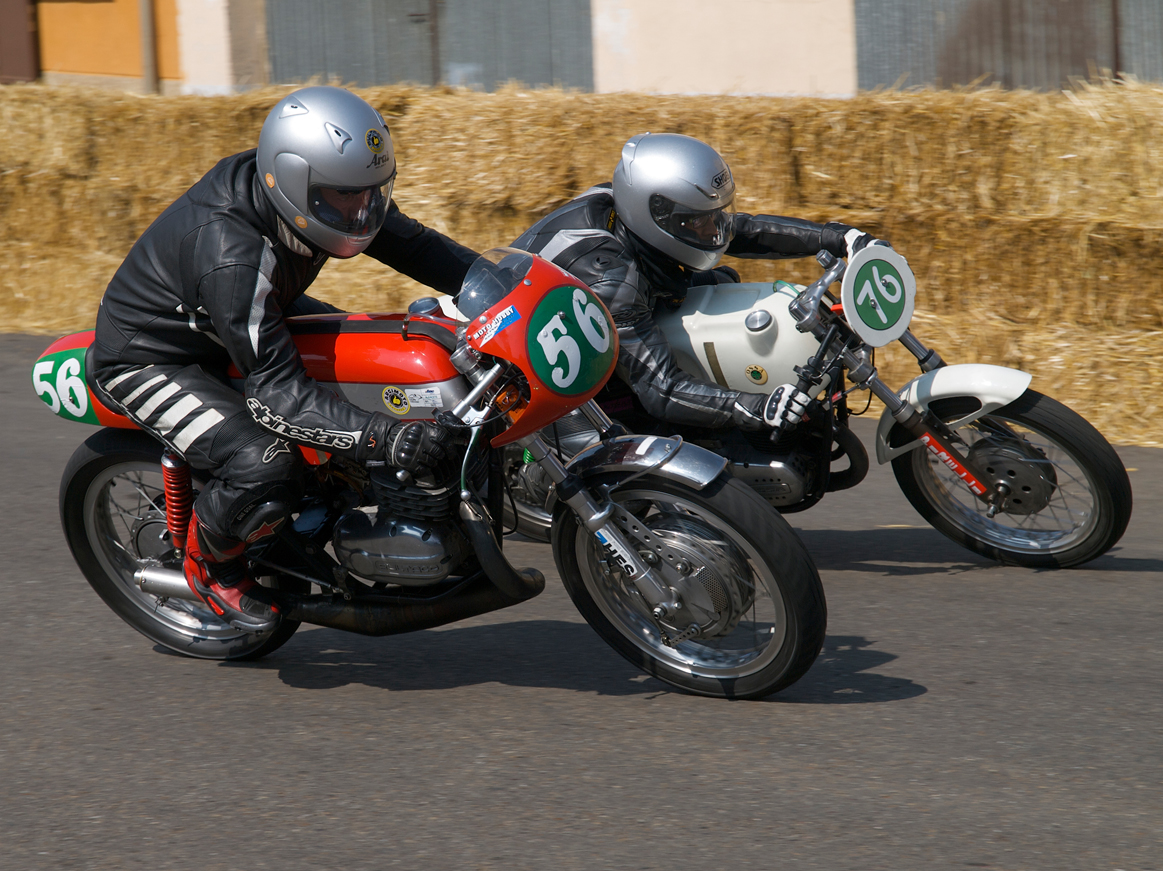 GP La Bañeza 2014